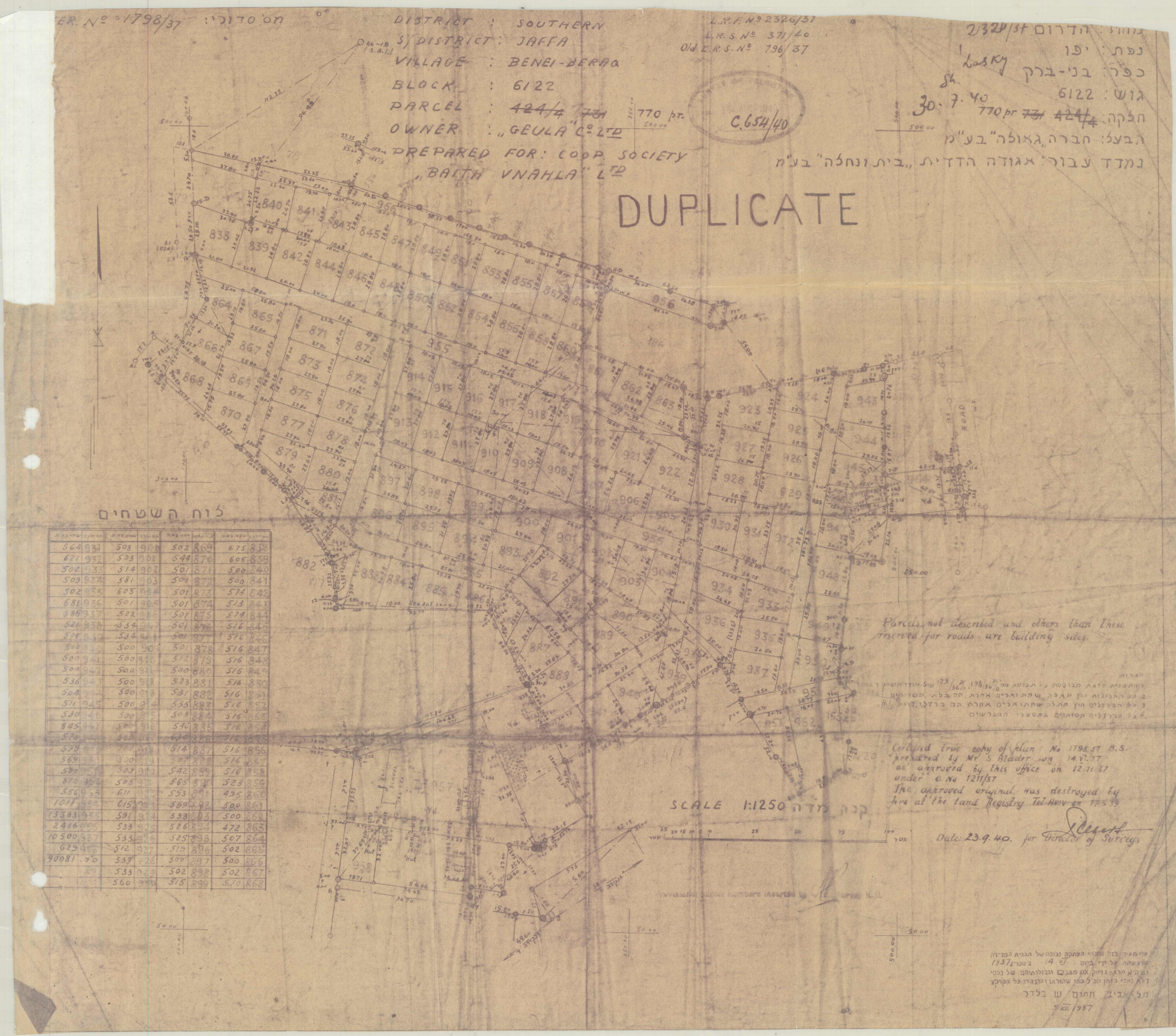 Map of Benei Beraq. Prepared for Coop Society "Beith Vnahla" Ltd. Owner: "Geula" Co. Ltd. Benei Beraq, SRF_34(34 / 34). Traces of settlement, mosaic pavement. Remains of dam in wadi, tombs.